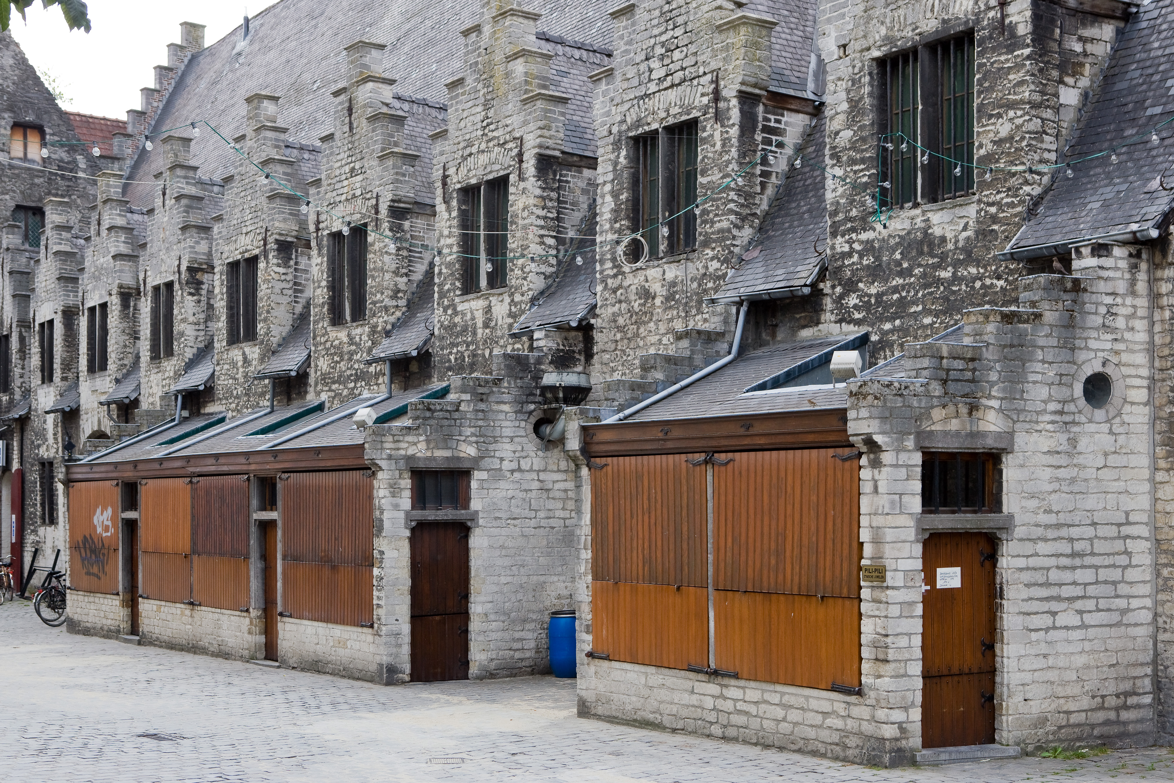 Ghent, Belgium: Rear side of the Vleeshuis (Flesh House) at the Pensmarkt (Chitterlings Market), built 1406–10, with the Penshuiskens (Chitterlings Shacks) attached in 1542